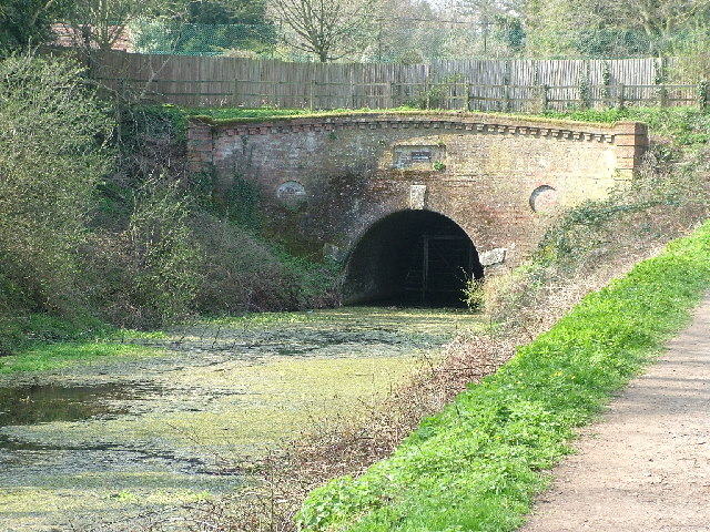 Eastern entrance to the Greywell Tunnel. Built in the 1700's, the tunnel is 1230 yards long and the 2nd longest tunnel in S.England - Info at